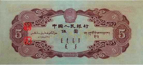 Back of second series 5 yuan renminbi (version 1)